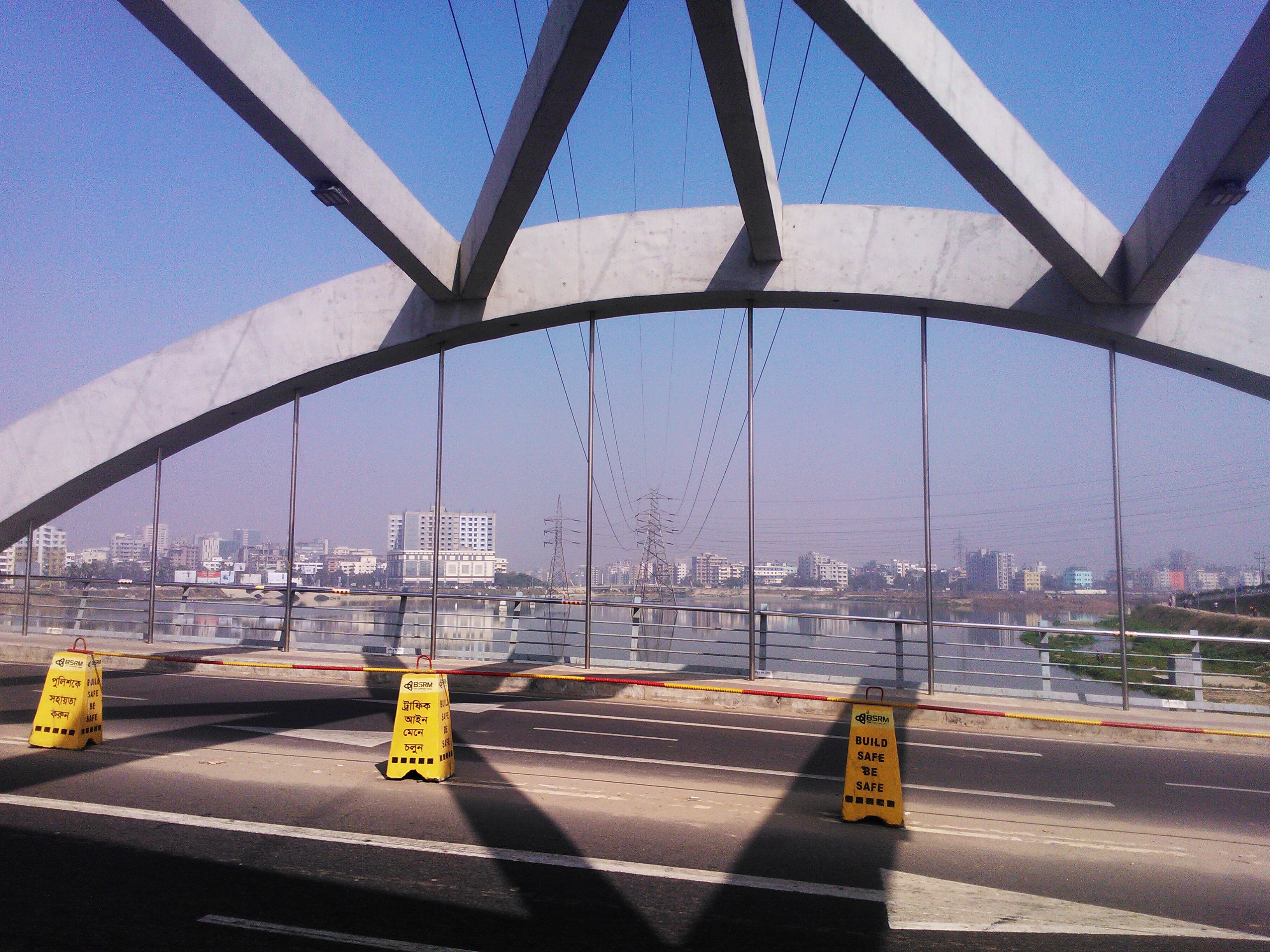 Hatirjheel, Dhaka, Bangladesh.